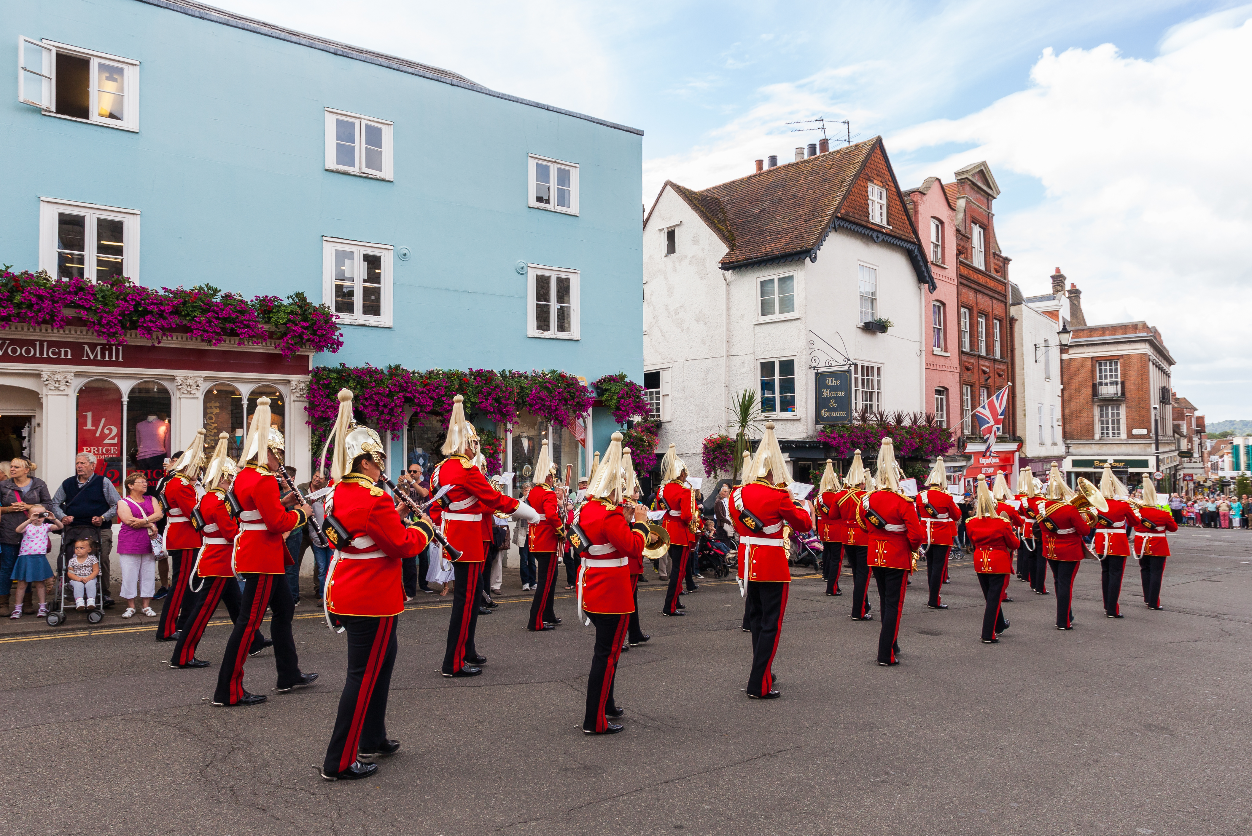 Changing of the Guard of the Windsor Castle, England